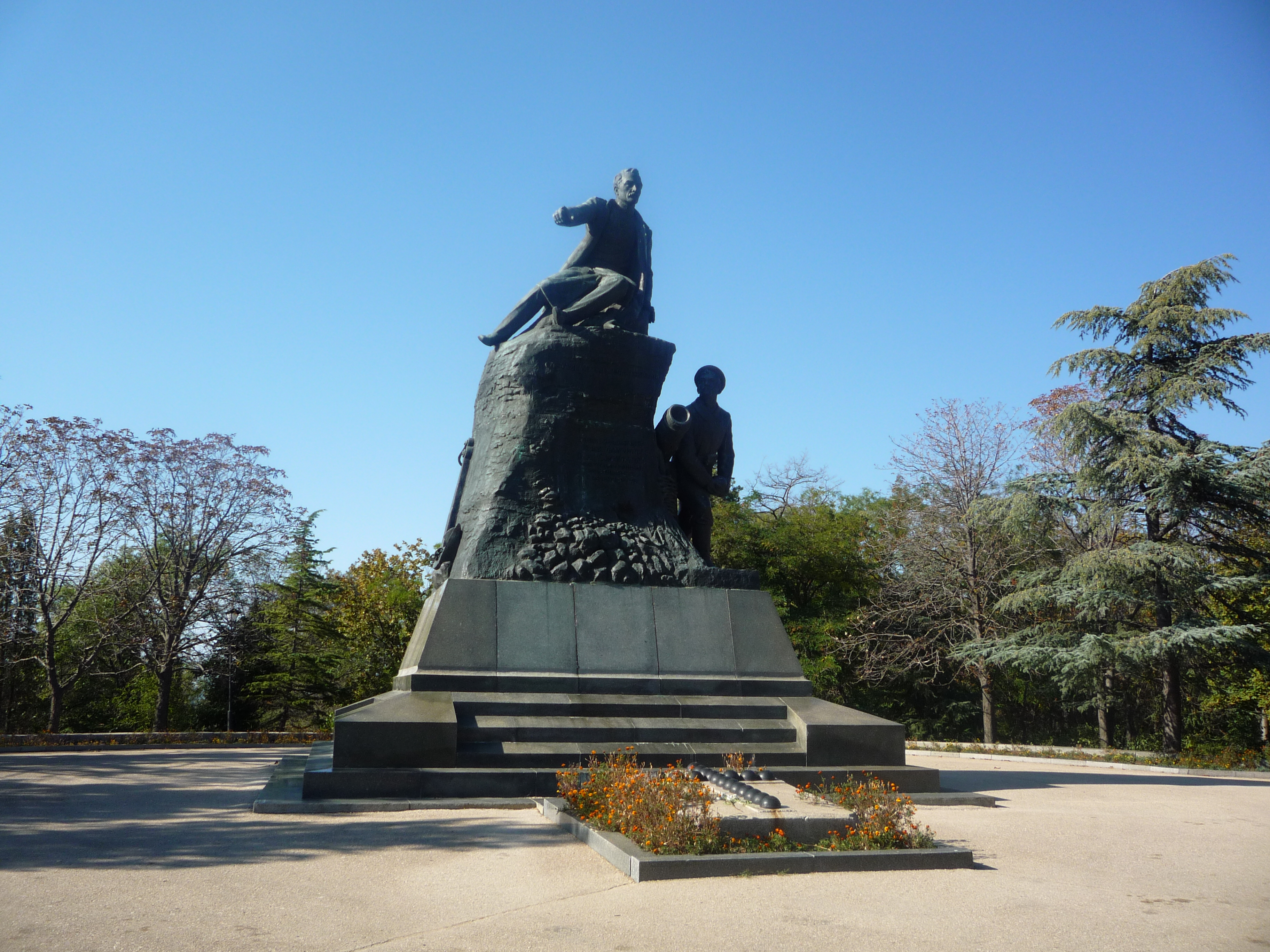 Kornilov Monument on-site lethal wound, Malakoff mound, Sevastopol